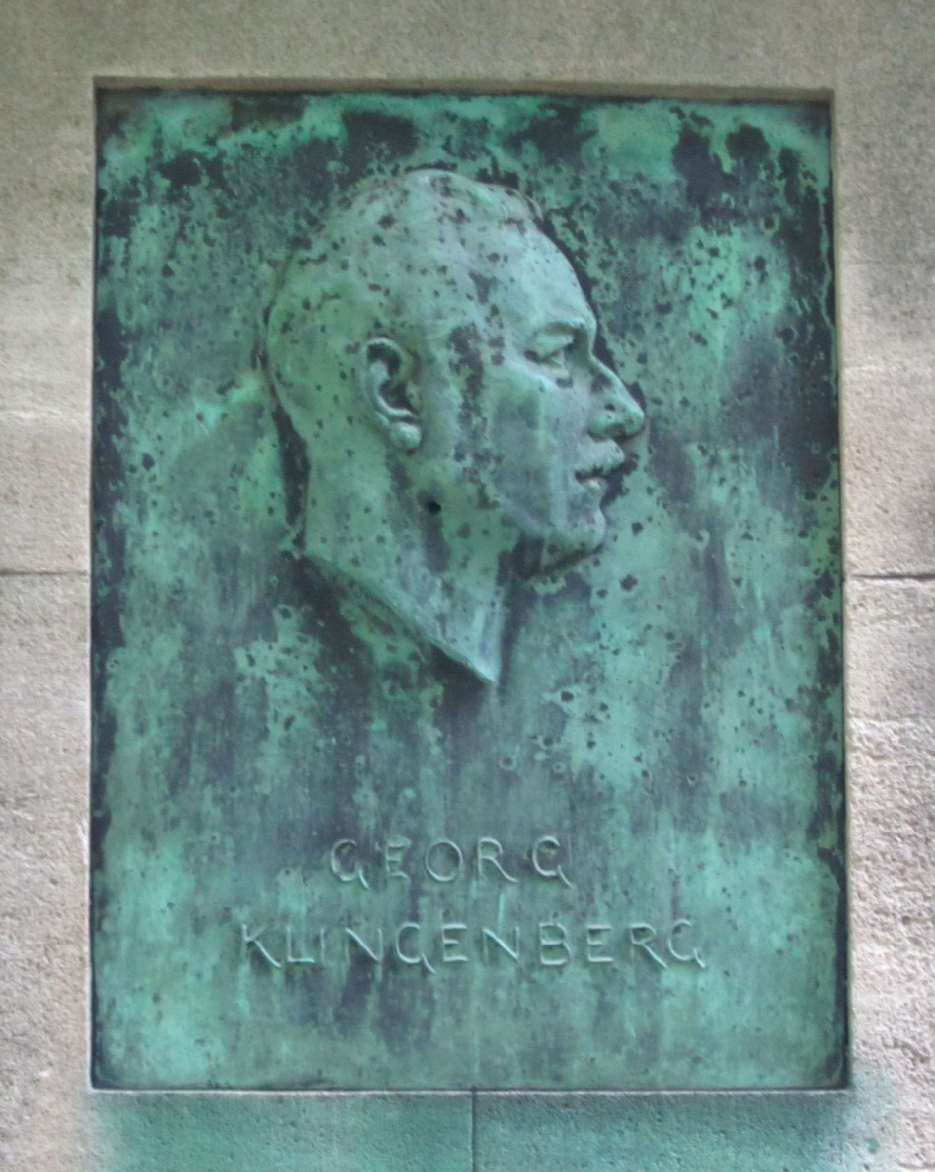 Portrait relief of the electrical engineer and builder of power plants Georg Klingenberg (1870-1925) at his grave on the Cemetery II of Trinity Church at Bergmannstraße in Berlin-Kreuzberg, created by the sculptor Fritz Klimsch.